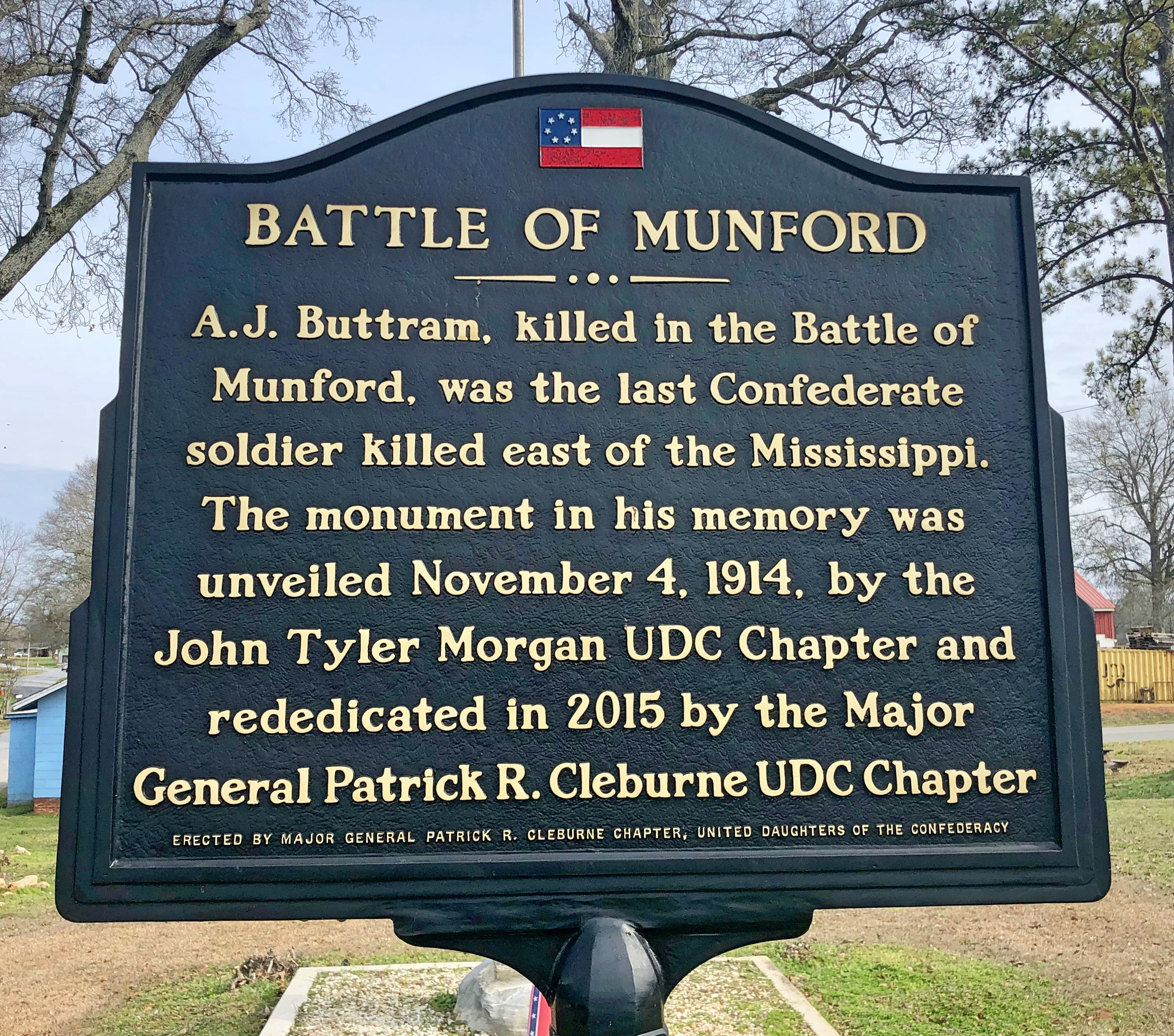 Marker describes the last to Confederate soldier to die in open combat by contending military forces east of the Mississippi even after Lee's surrender to Grant at Appomattox.